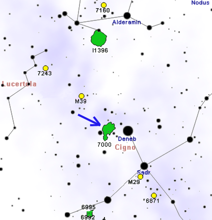 Map of NGC 7000